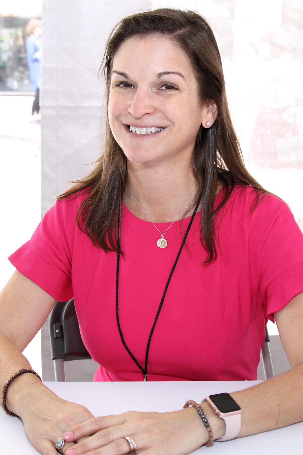 Author Sarah Dessen at the 2017 Texas Book Festival.